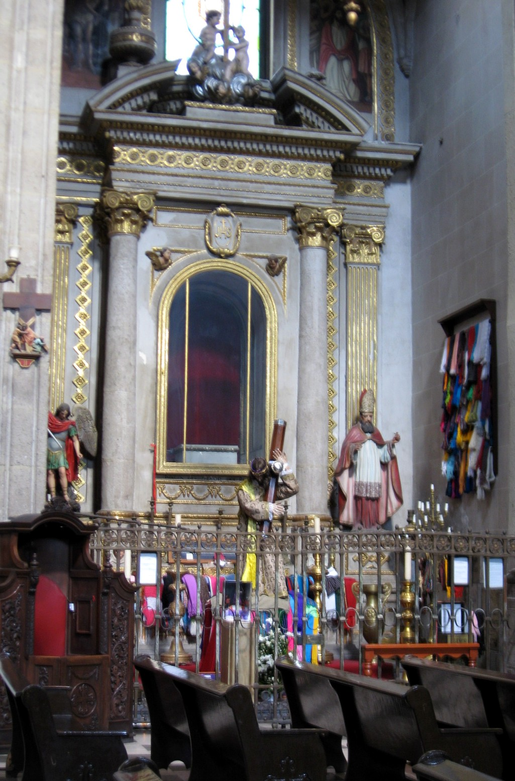 Señor de los Rebozos chapel in the Church of Santo Domingo in Mexico City